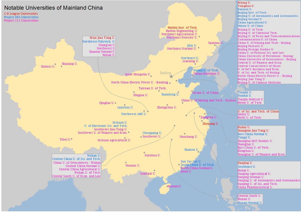 Map showing the distribution of notable universities in China, including institutes in C-9 League, Project 985 and 211.